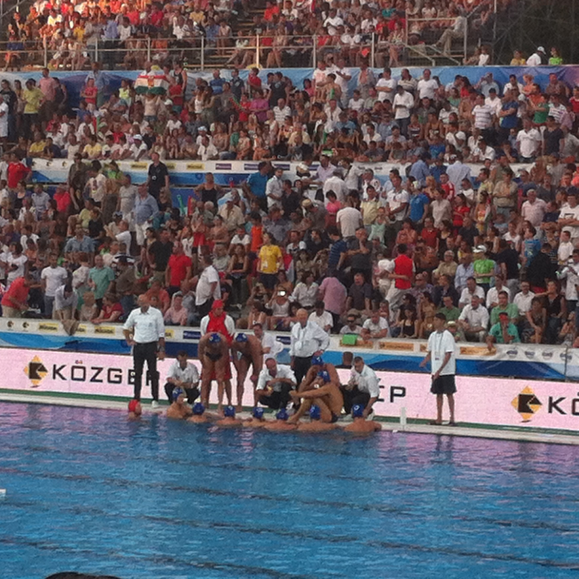 2014 European Water Polo Championship, Hungary vs Italy semifinal game 8:7